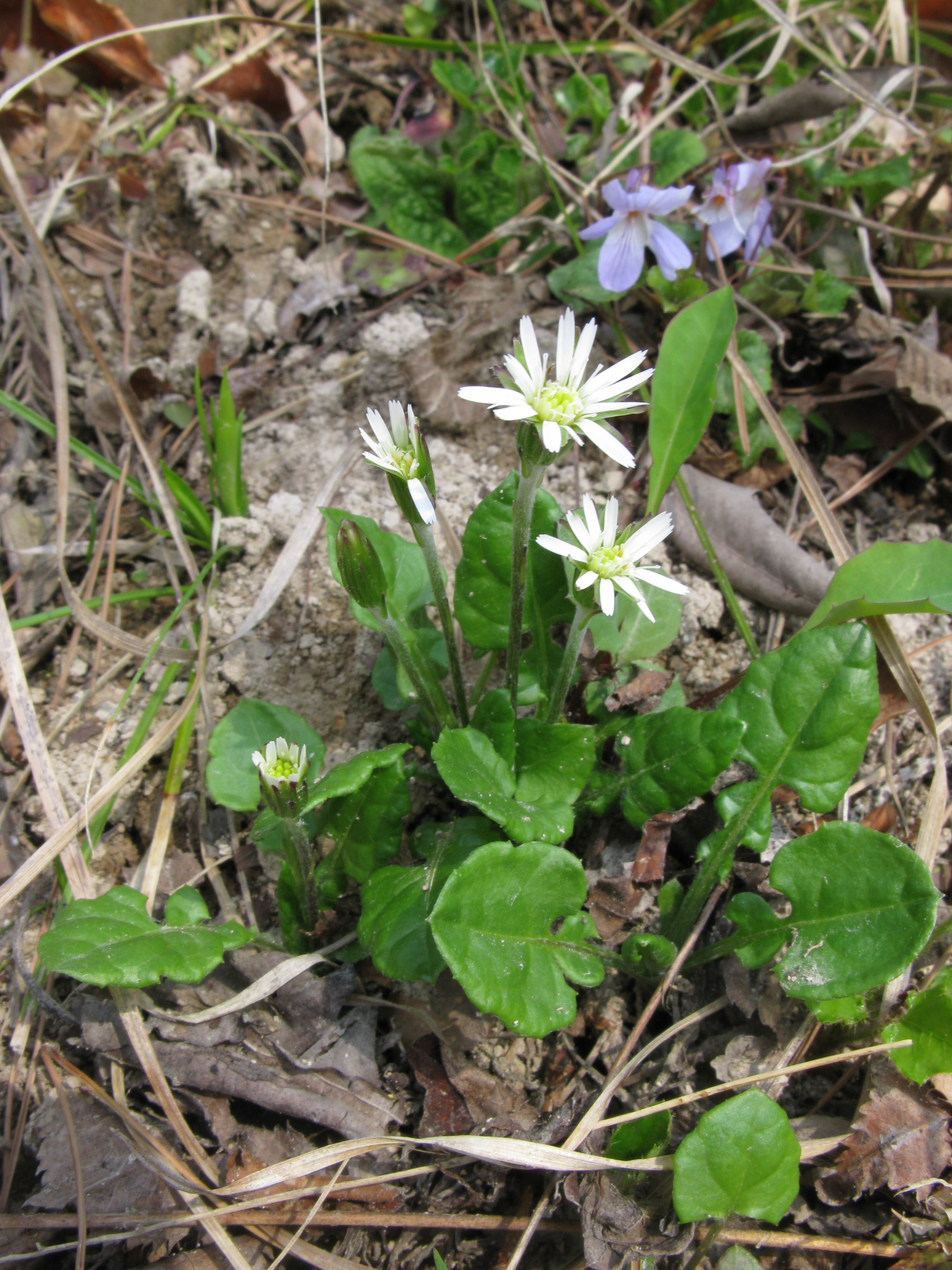 Leibnitzia anandria,Aizu area,Fukushima pref.,Japan